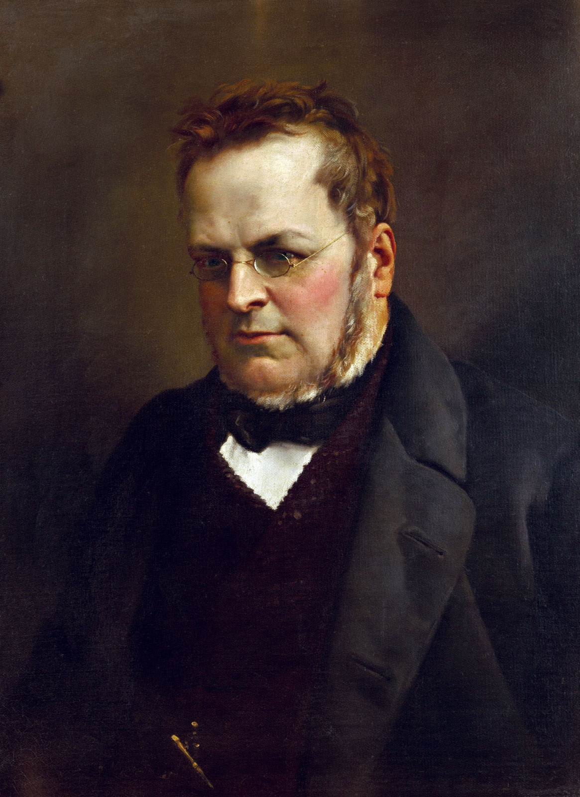 Camillo Benso count of Cavour by Antonio Ciseri